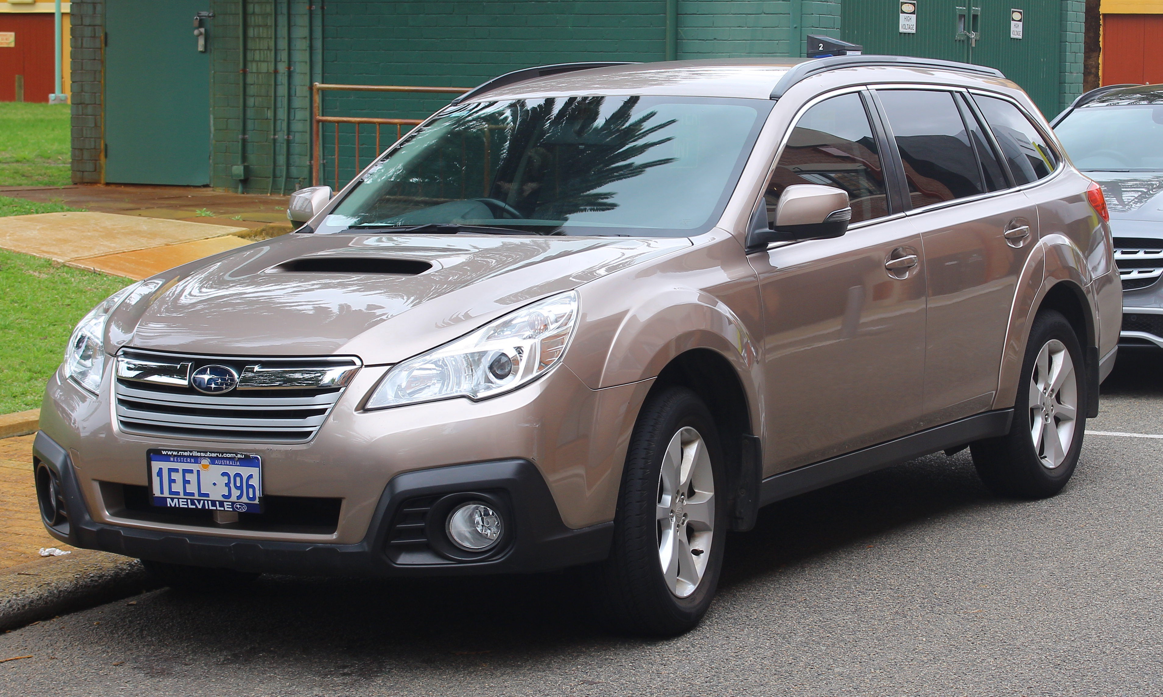 2013 Subaru Outback (BR9 MY14) 2.0D station wagon. Photographed in Fremantle, Western Australia, Australia.